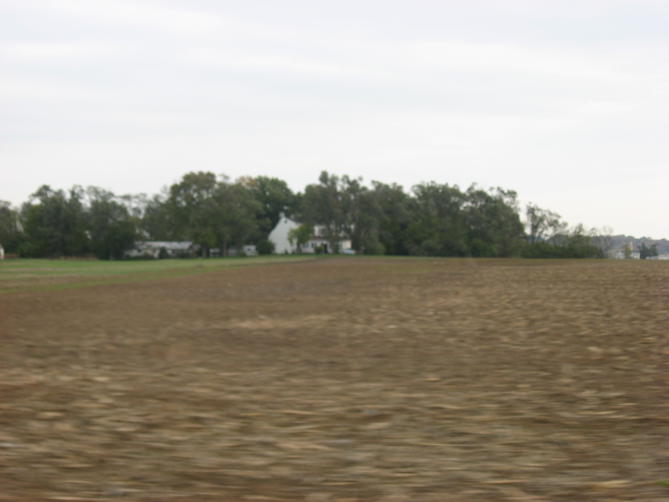 Distant view of the John Augspurger Farm No. 2, located at 3046 Pierson Road in Trenton, Ohio, United States. Built in 1846, it is listed on the National Register of Historic Places.